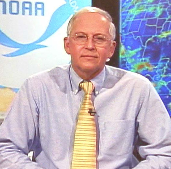 Max Mayfield, Director of the National Hurricane Center, on camera in Miami.